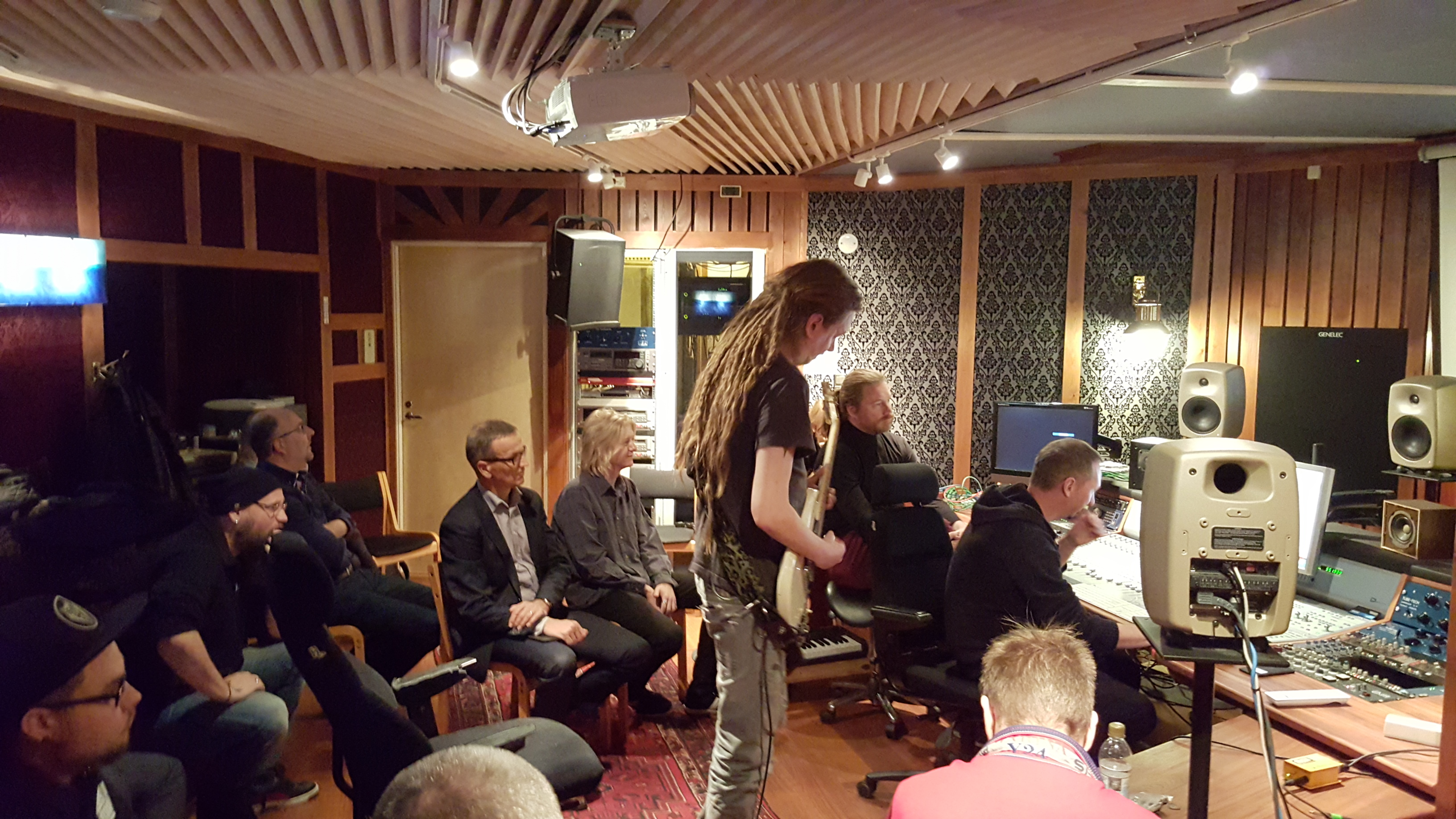 Guitar recording master class in Helsinki with Brian Virtue and Linde Lindstrom